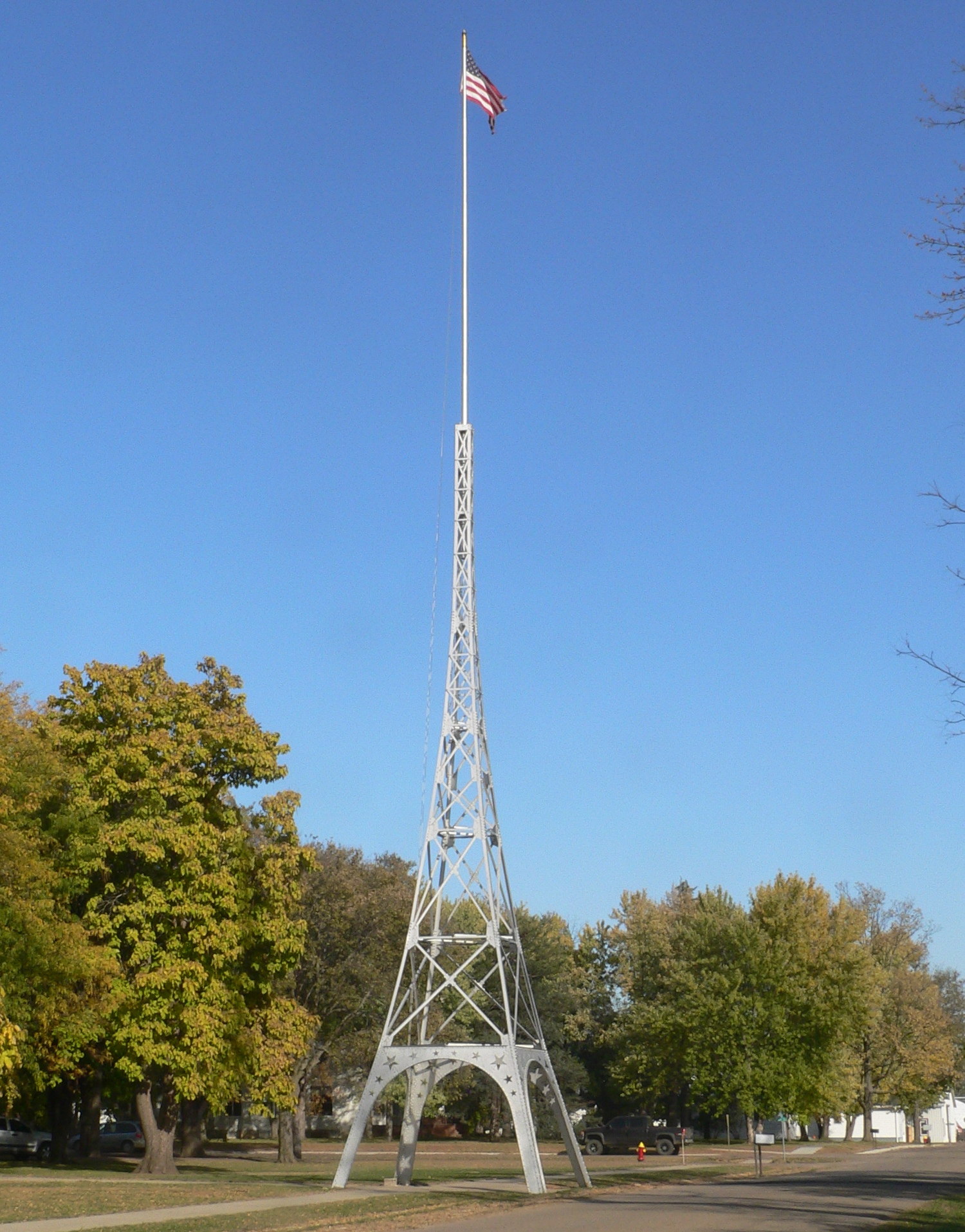 Flagpole in front (south) of Bon Homme County courthouse, on 18th Avenue between Holly and Ivy Streets in Tyndall, South Dakota; seen from the west-southwest.